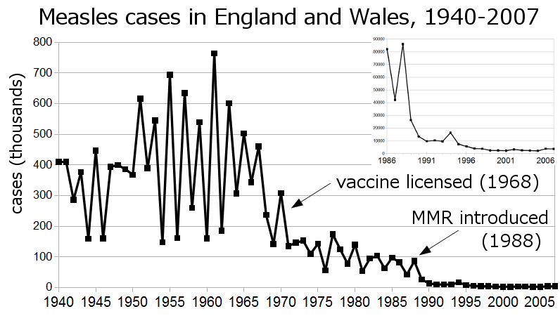 Data are from the Health Protection Agency, as reported on their website. Graph shows thousands of cases vs. year 1940–2007, with inset showing cases vs. year 1986–2007. Additional information, including the date that measles was added to the list of notifiable diseases (1940), the date the measles vaccine was licensed (1968), and the date the combined MMR vaccine was introduced (1988) are from HPA Background Information on Measles. Coverage was poor between the introduction of the single measles vaccine and the introduction of the MMR vaccine, damping but failing to break completely biennial episodic outbreaks. Coverage levels in excess of 90% followed the introduction of the MMR vaccine.